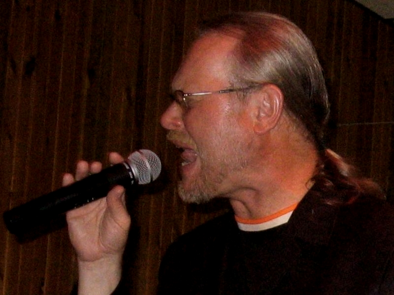 Vašo Patejdl in Astoria, New York, USA, April 2007.